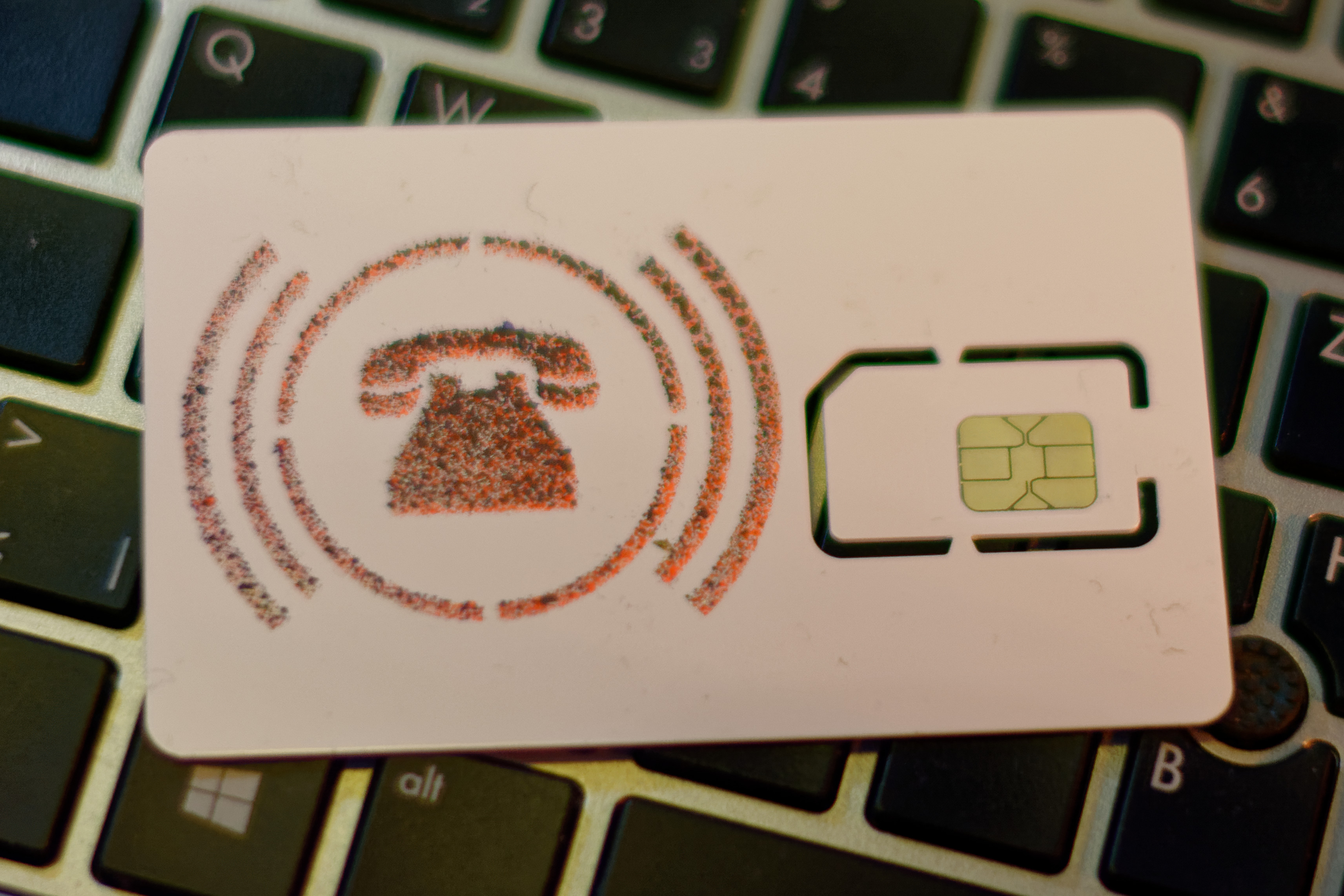 SIM card from the 35C3 (35th Chaos Communication Congress) SIM Card Art edition with Eventphone logo. This is the artist´s proof of the #35C3 SIM Card Art edition by eventphone. 23 unique pieces (+ 1 artist´s proof), numbered and signed by ST Kambor-Wiesenberg.